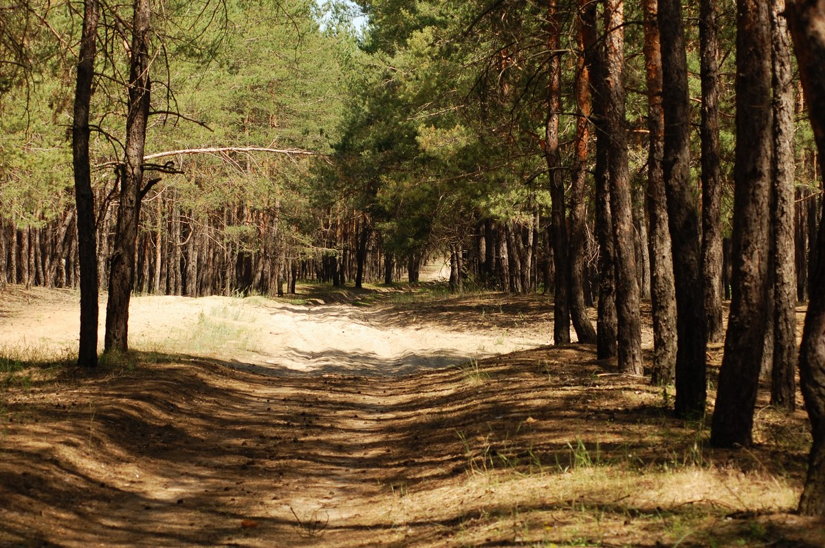 Coniferous wood in Yampil